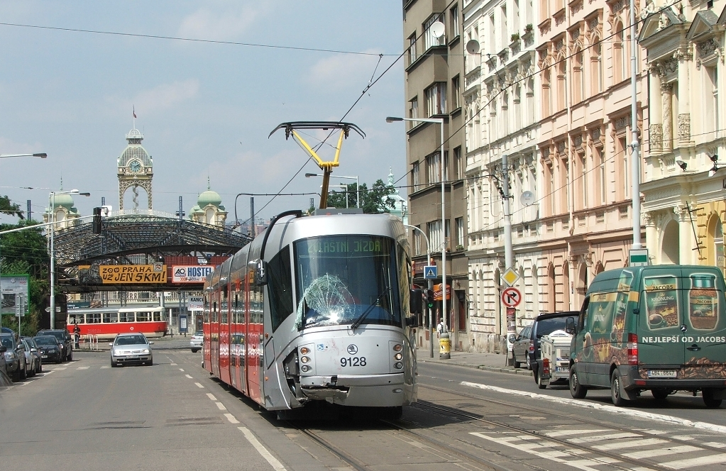 Škoda 14T, Výstaviště, Prague